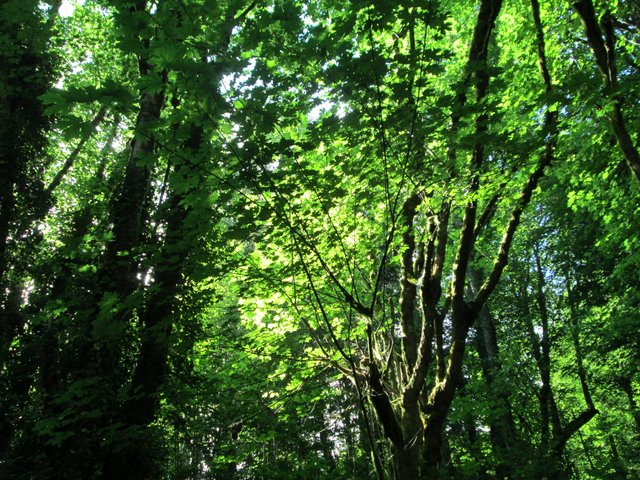 Forest Coverage at Anderson Point County Park in Kitsap County, Washington State